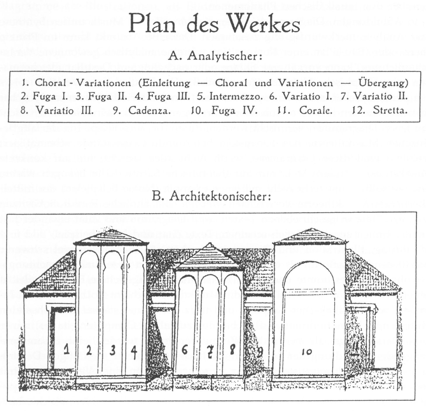 Structure of Ferruccio Busoni's Fantasia contrappuntistica (1910/1921) as a sketch of a cathedral